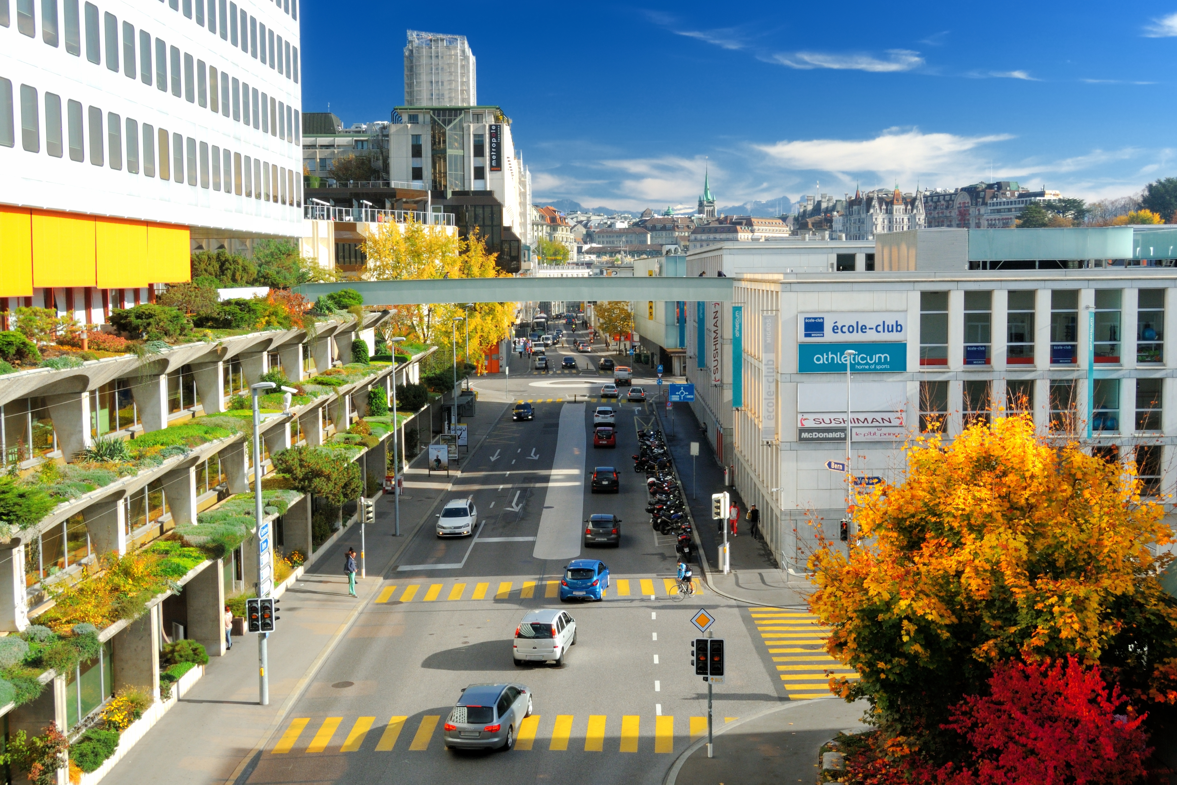 Autumn view of Rue de Genève from Pont Chauderon (Lausanne). N.B.: This picture is part of a series showing all four seasons, see other versions.